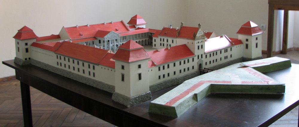 Zhovkva (Polish: Żółkiew) castle model in local museum